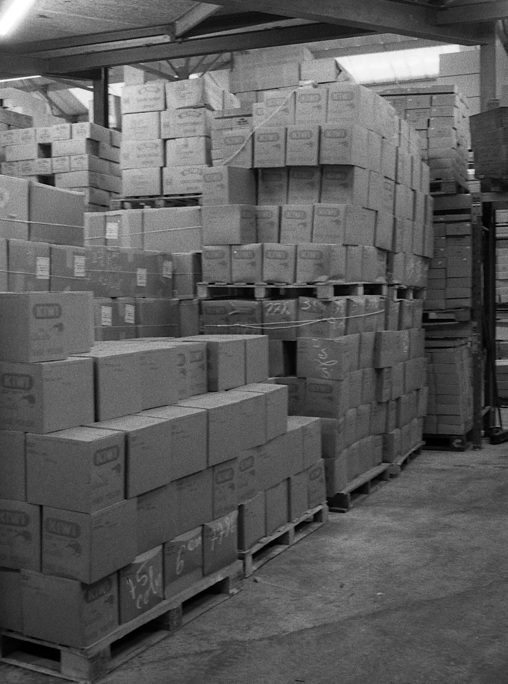 K&M Candles Brockholes UK, 1972 (RLH), Shoe Polish Warehouse Storage